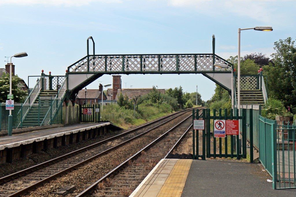 Footbridge, Flint railway station